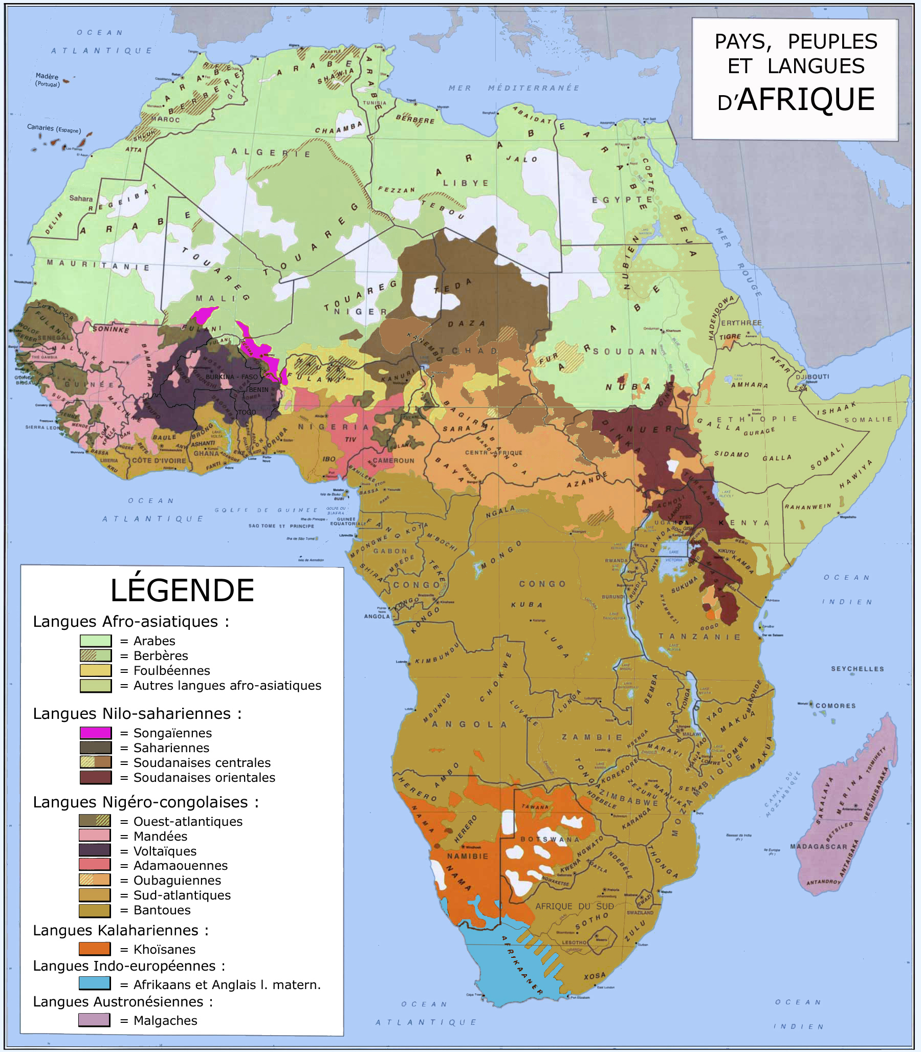 Simplified map of the languages in Africa. Derivative work of the CIA fact book & maps, translated in french.